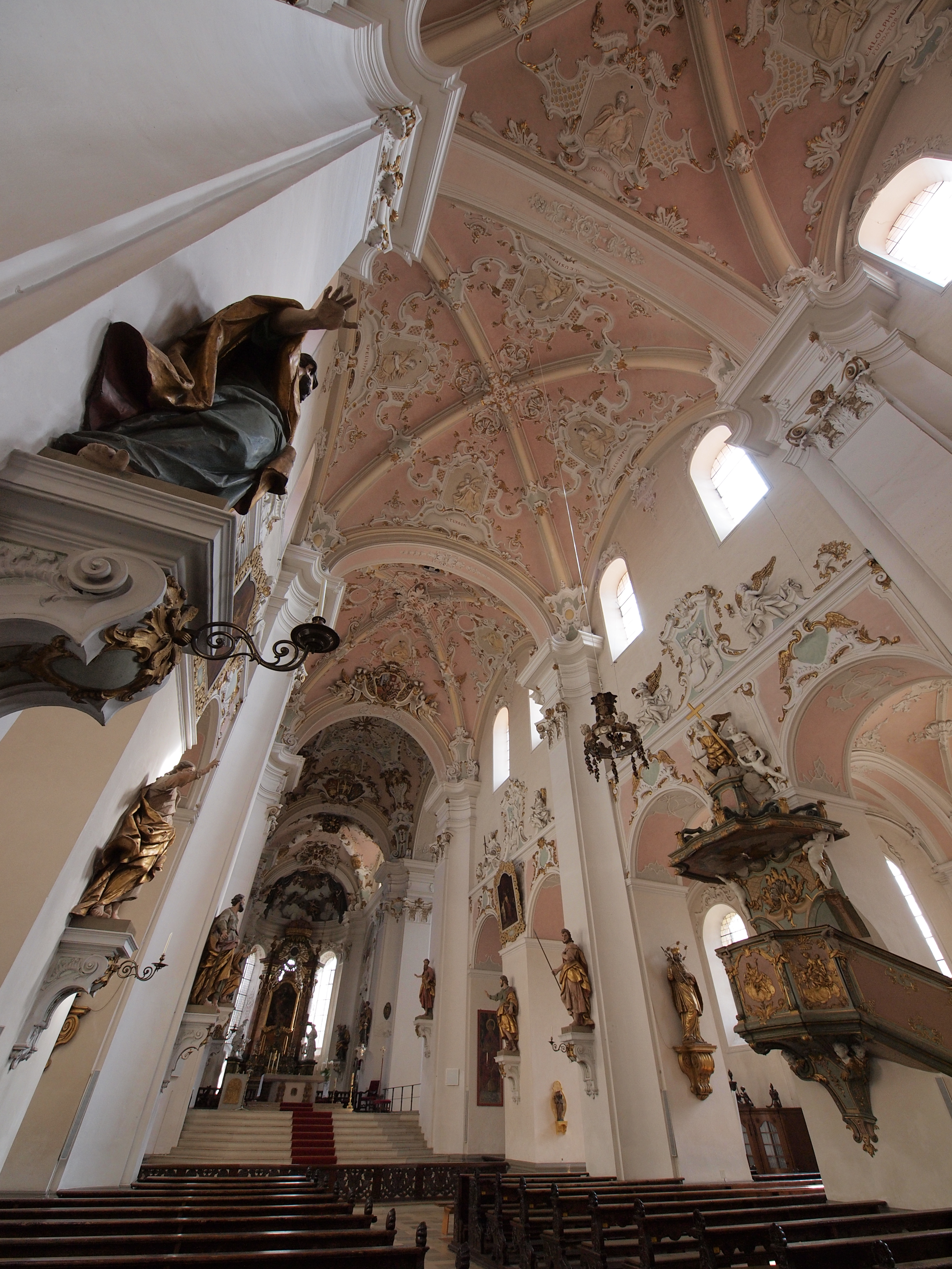 Inside the St Vitus Basilika, Ellwangen (Germany)